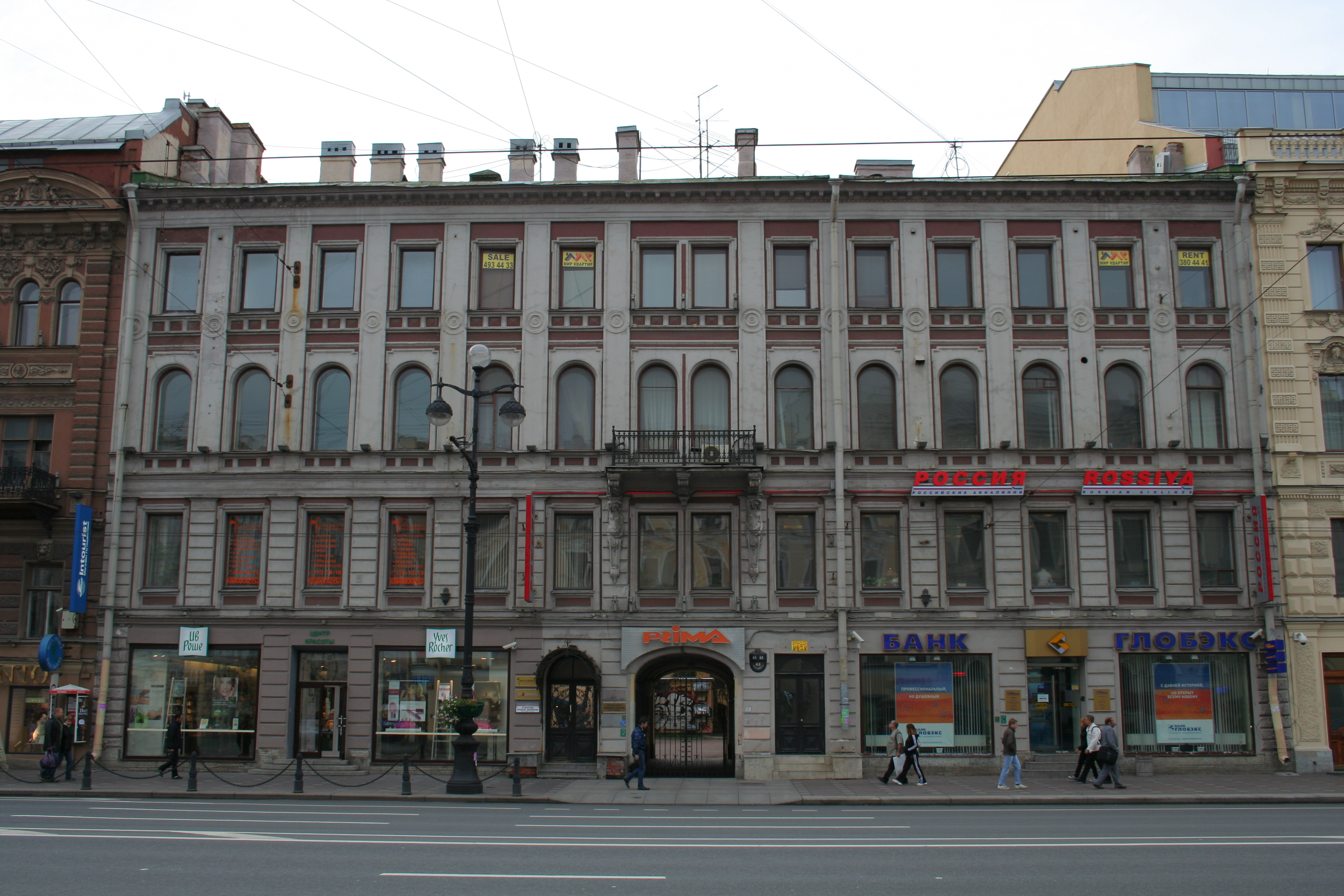 The Nevsky Prospekt in Saint Petersburg. House number 61. Head office of Rossiya.